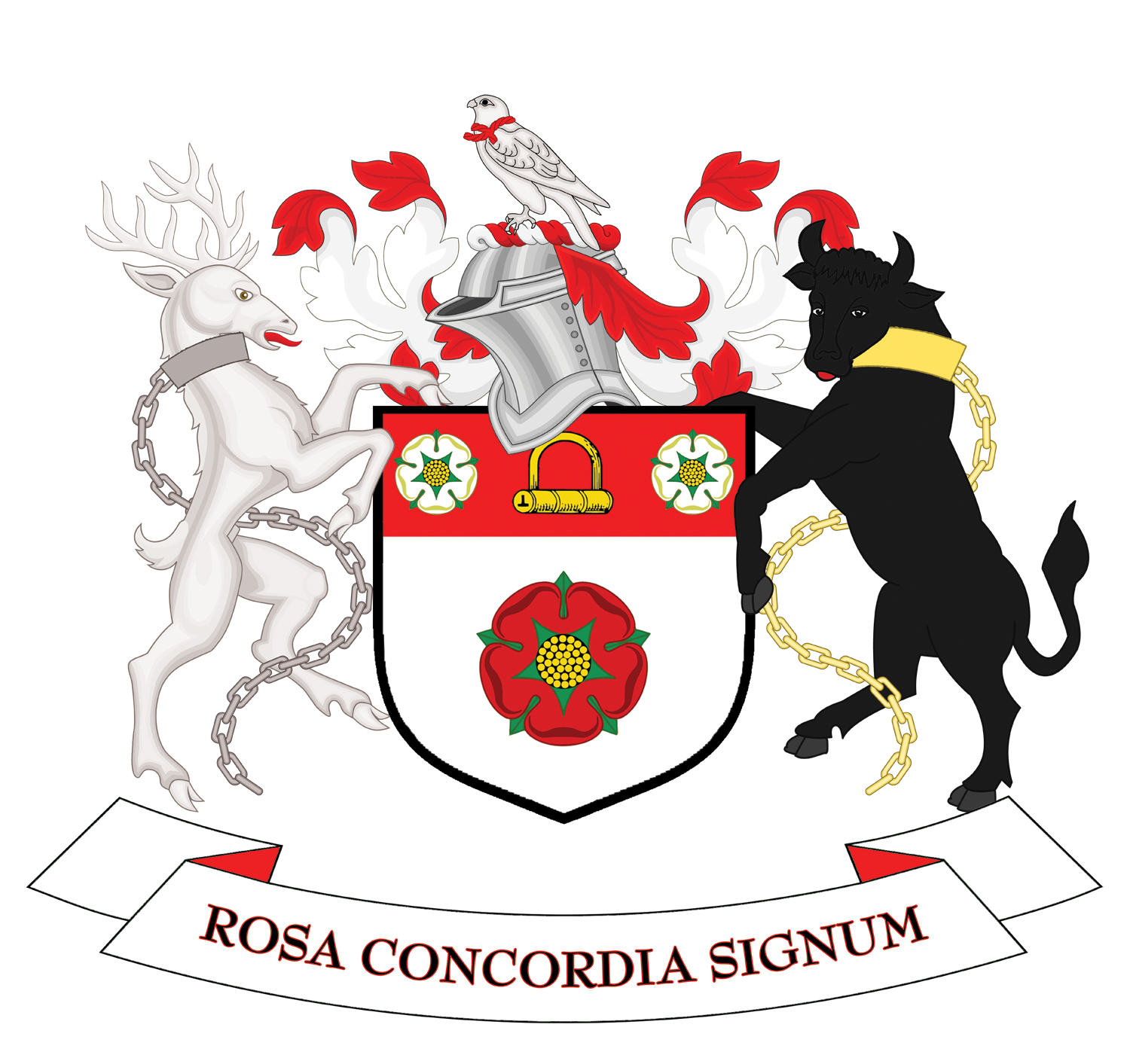 The Coat of arms of Northamptonshire County Council, the top-tier local government authority for the county of Northamptonshire, in the East Midlands of England. The blazon is:ARMS: Argent a Rose Gules barbed and seeded proper on a Chief of the second a Fetterlock Or between two Roses of the first barbed and seeded also proper. CREST: On a Wreath of the Colours a Falcon close Argent gorged with a Cord tied Gules. SUPPORTERS: On the dexter side a Hart Argent gorged with an Iron Collar and Chain reflexed over the back proper on the sinister side a Bull guardant Sable gorged with a Collar and Line reflexed over the back Or.